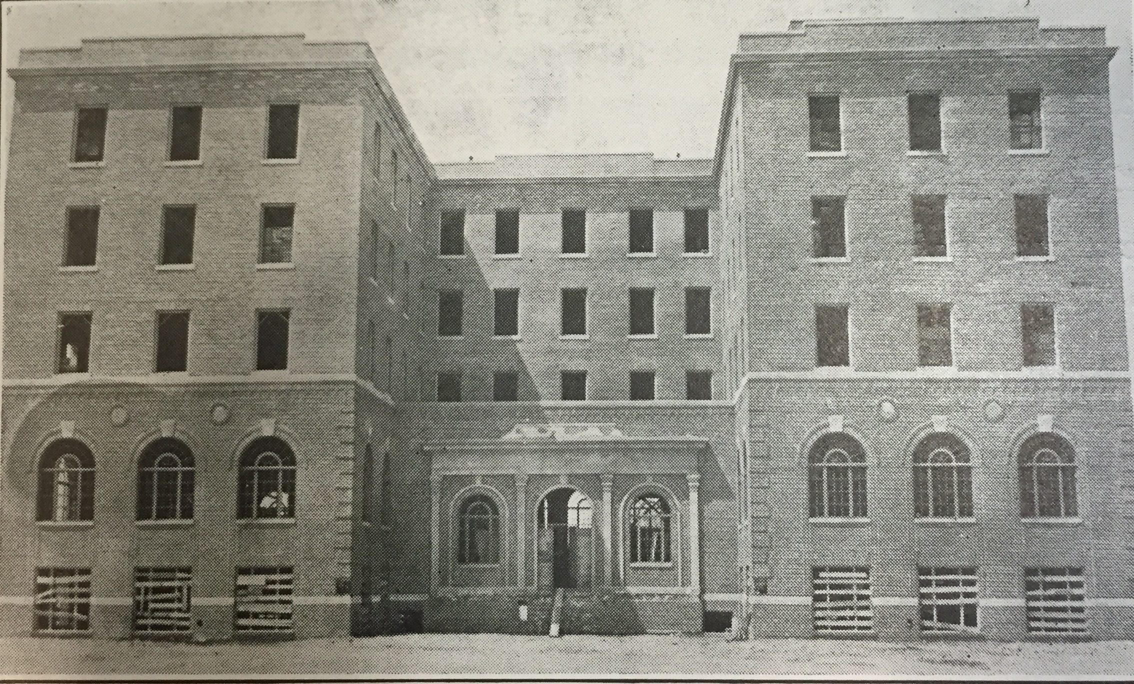 Anna J. Freeman Pavilion which is the present day Isidor and Lina Leviton Pavilion